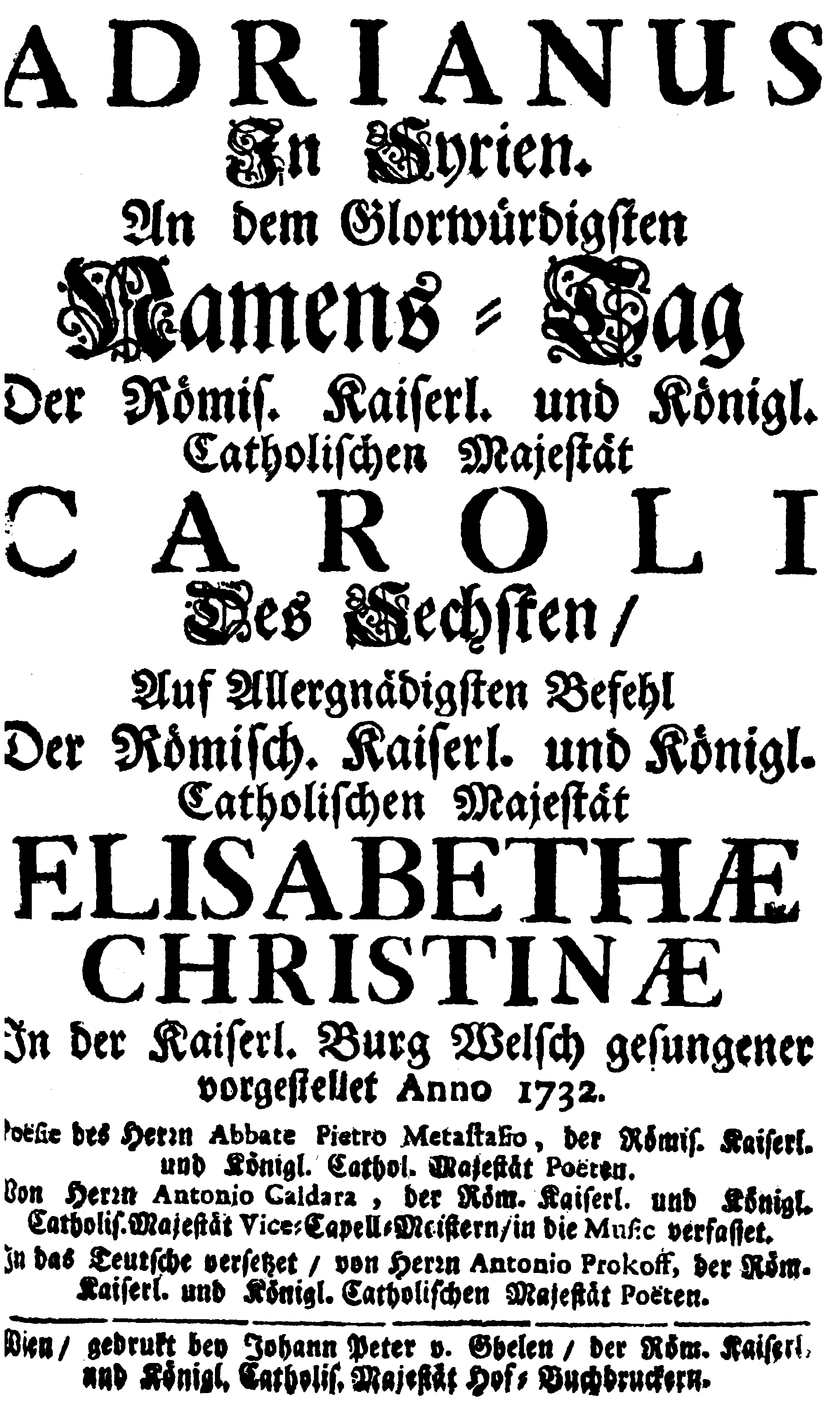 Antonio Caldara - Adriano in Siria - titlepage of the libretto - Vienna 1732